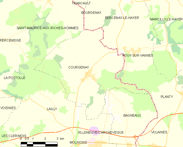 Map of French municipality Courgenay